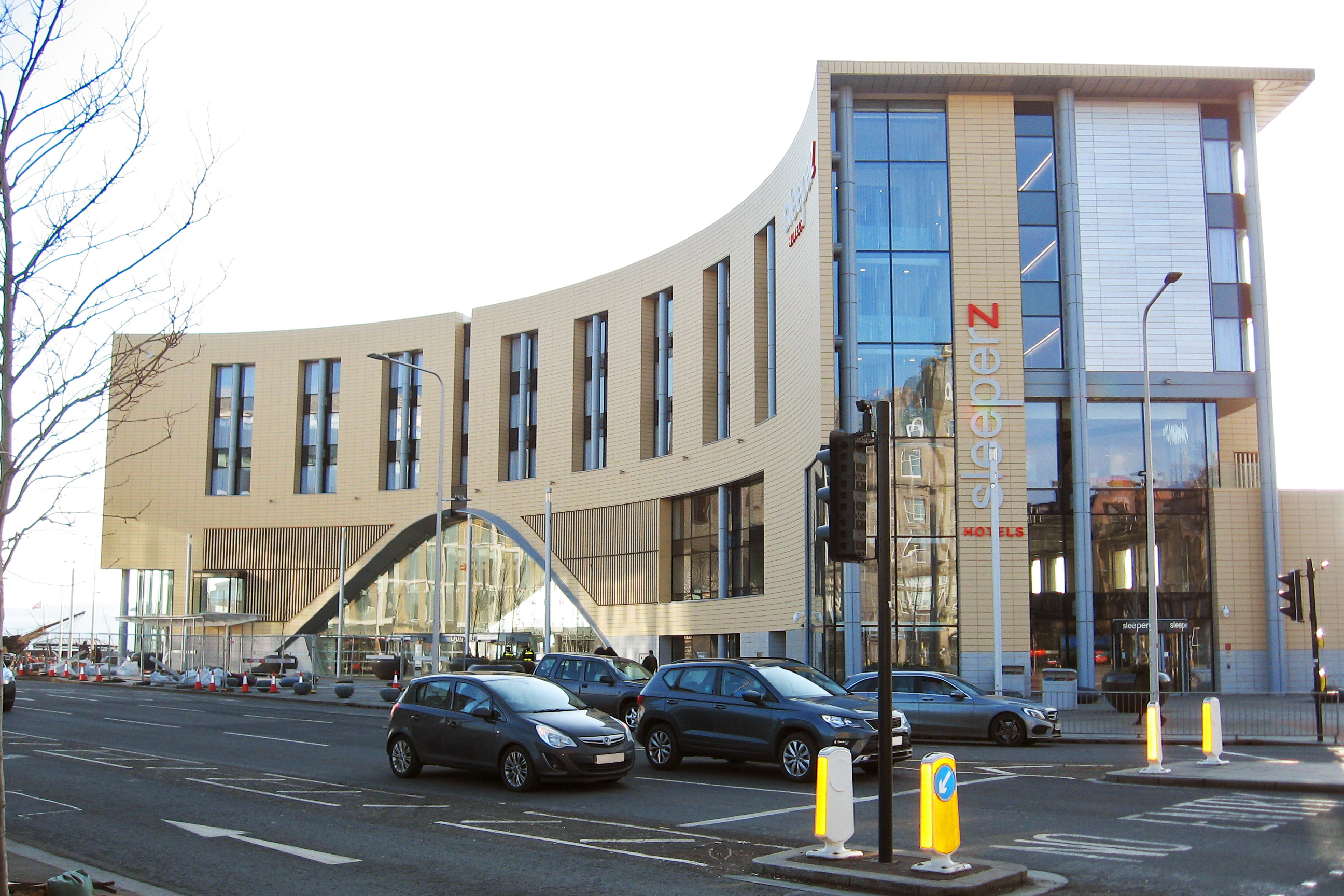 Dundee Railway Station main entrance (with attached Sleeperz Hotel) seen several months after its mid-2018 reopening.